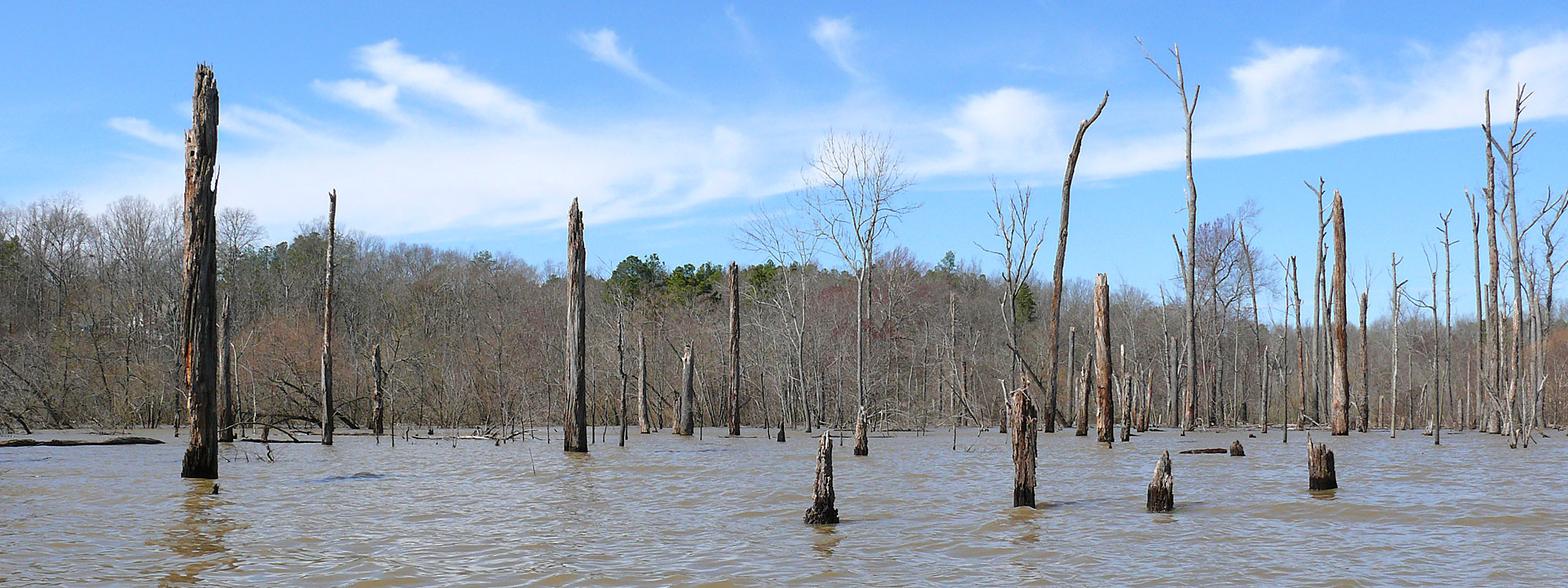 The northern end of Jordan Lake, near the Morgan Creek inlet. This area is known as the Morgan Creek Mudflats later in the year when the water level in the lake is significantly lower, and is a popular spot for birdwatching. Photo taken with a Panasonic Lumix DMC-FZ50 in Chatham County, North Carolina, USA.